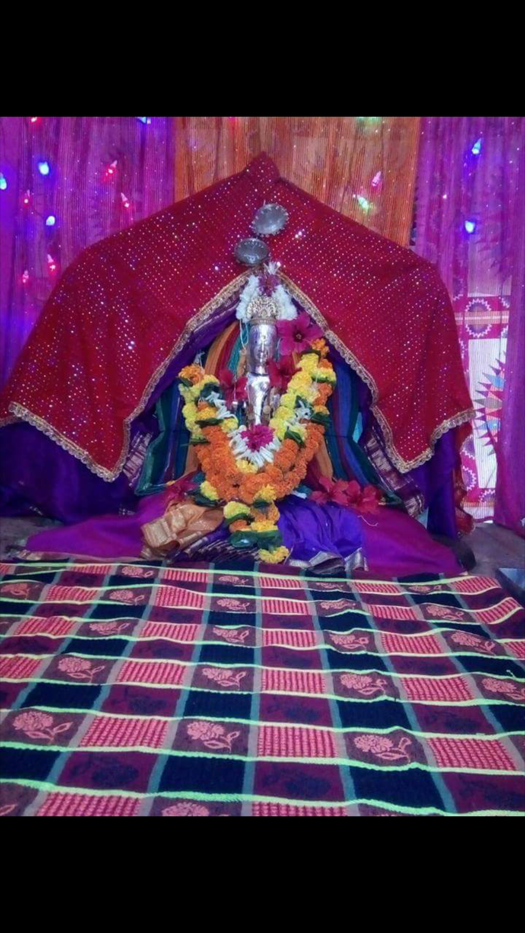 Jakadevi